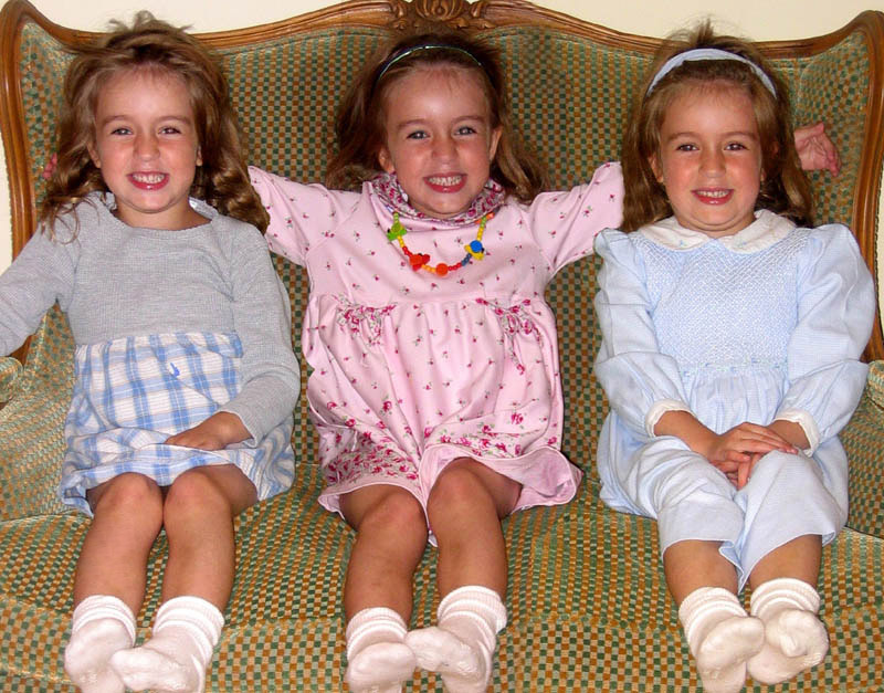 Identical triplet girls (in order from left to right): Abby, Sophia, and Deana.